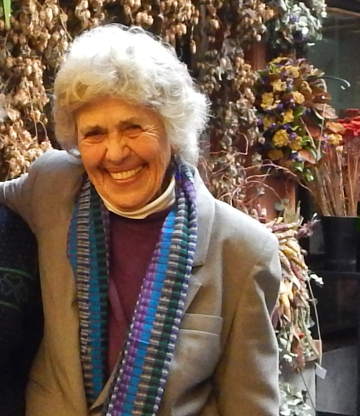 Photograph of author & activist Sally Miller Gearhart